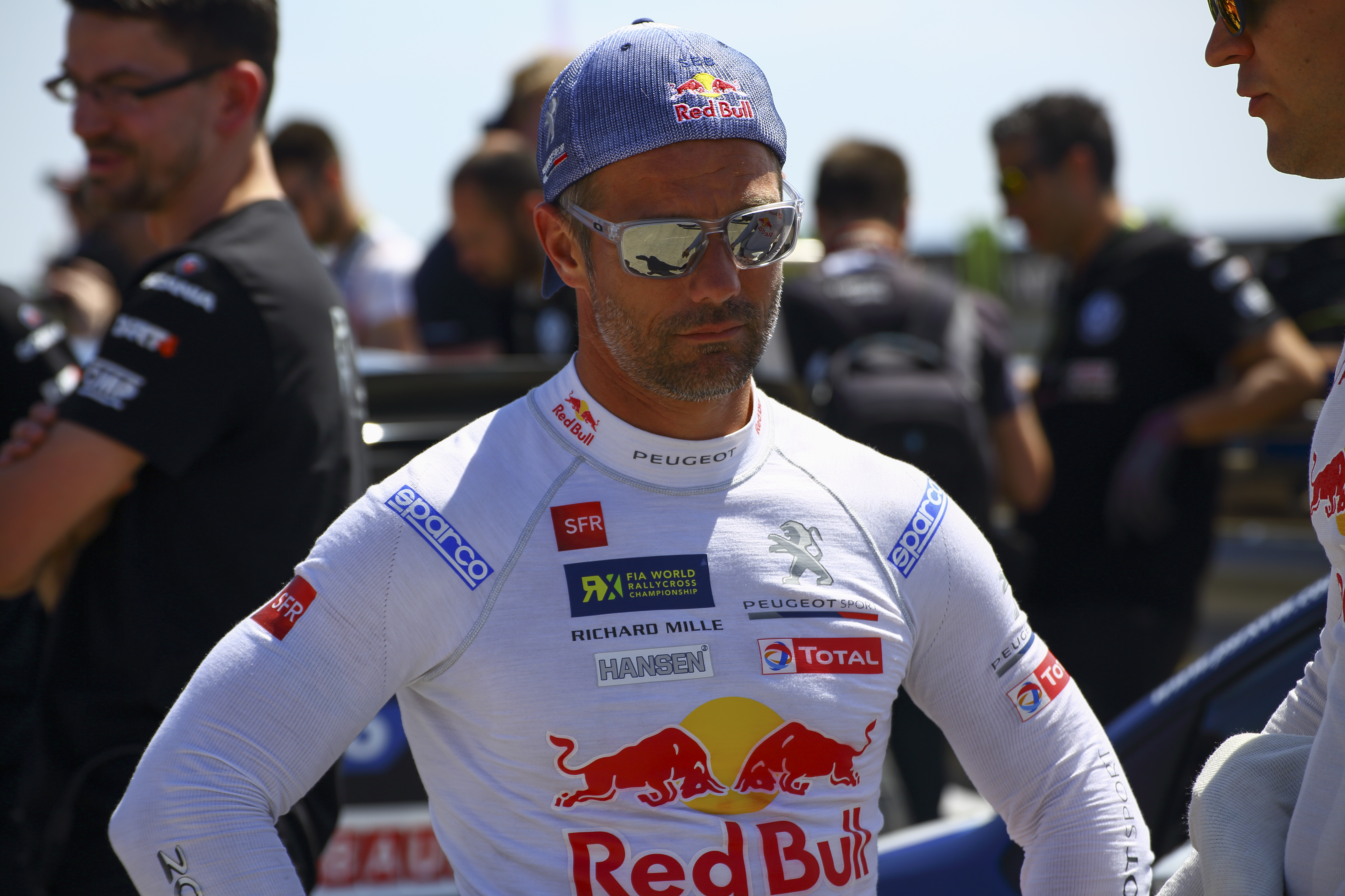 Sébastien Loeb , FIA World RX of Portugal 2017 in Montalegre